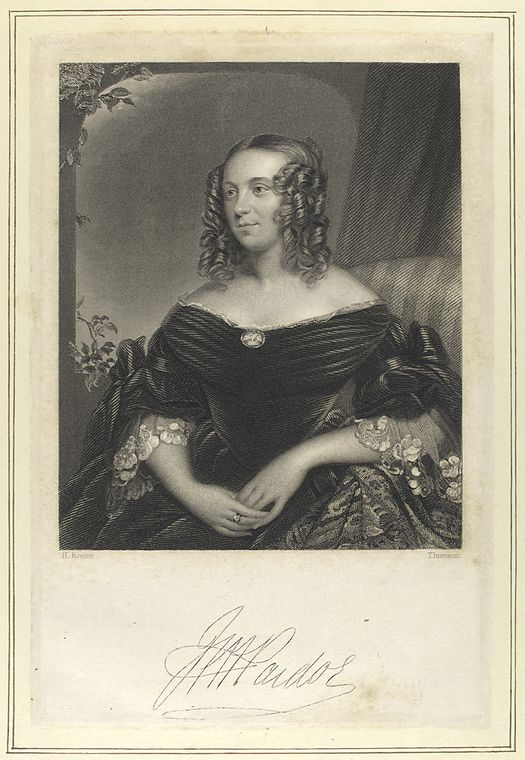 Portrait of Julia Pardoe, British poet, with her autograph at the bottom